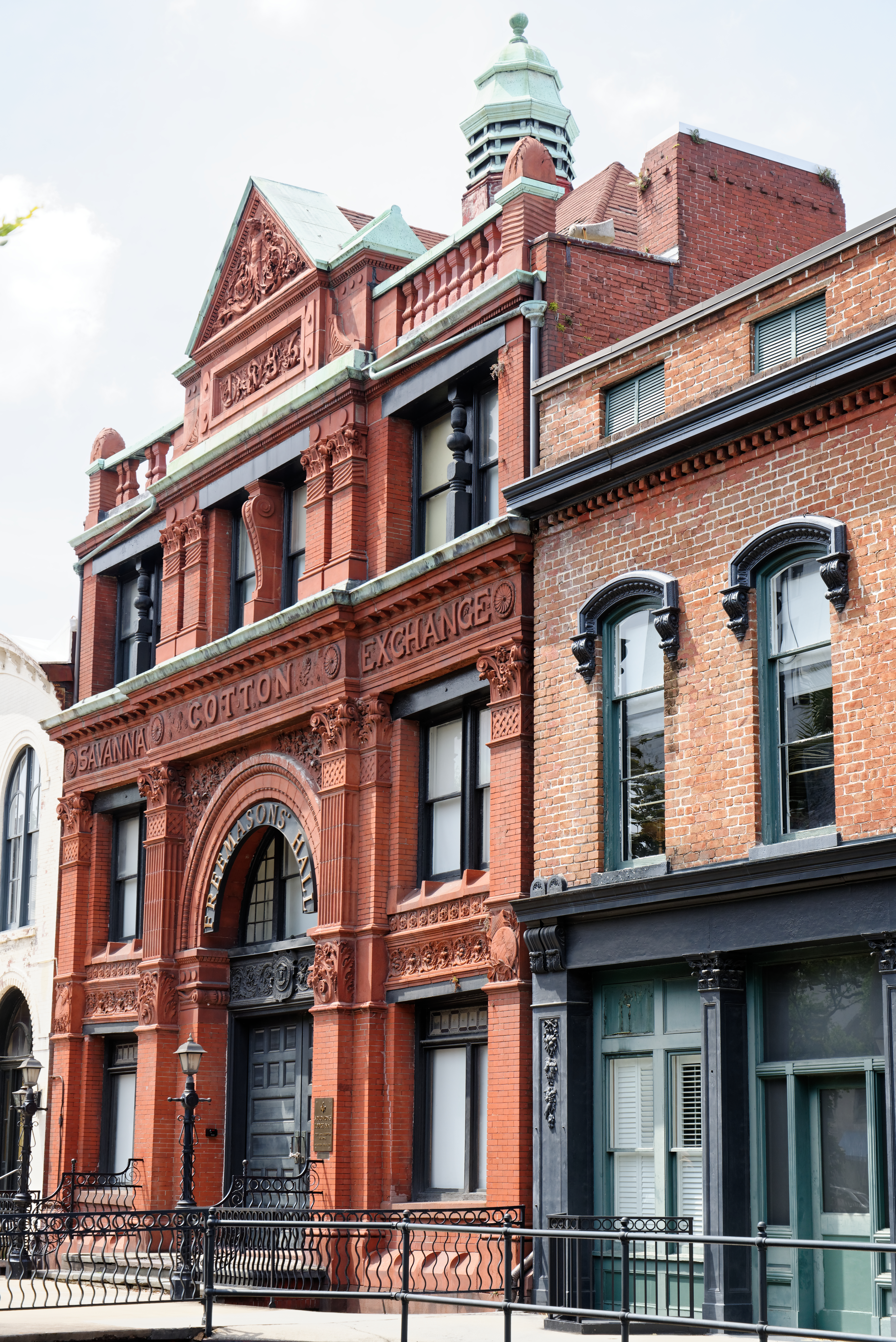 Savannah Cotton Exchange building in Savannah, Georgia, US. Designed by William G. Preston.